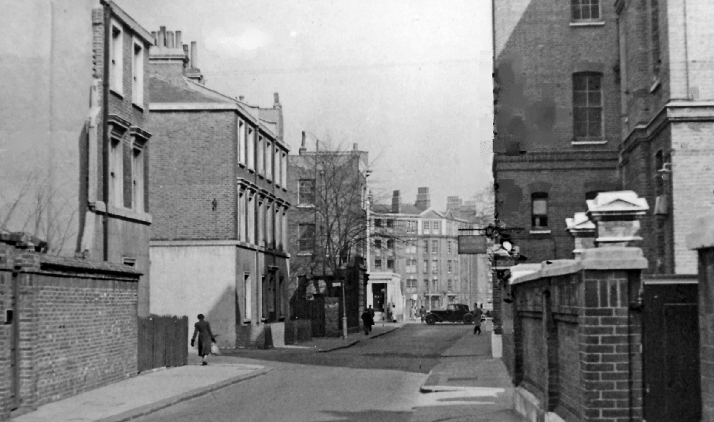 Eastward on Cale Street from Dovehouse Street. View towards Sydney Street with St Luke's Hospital on the right.